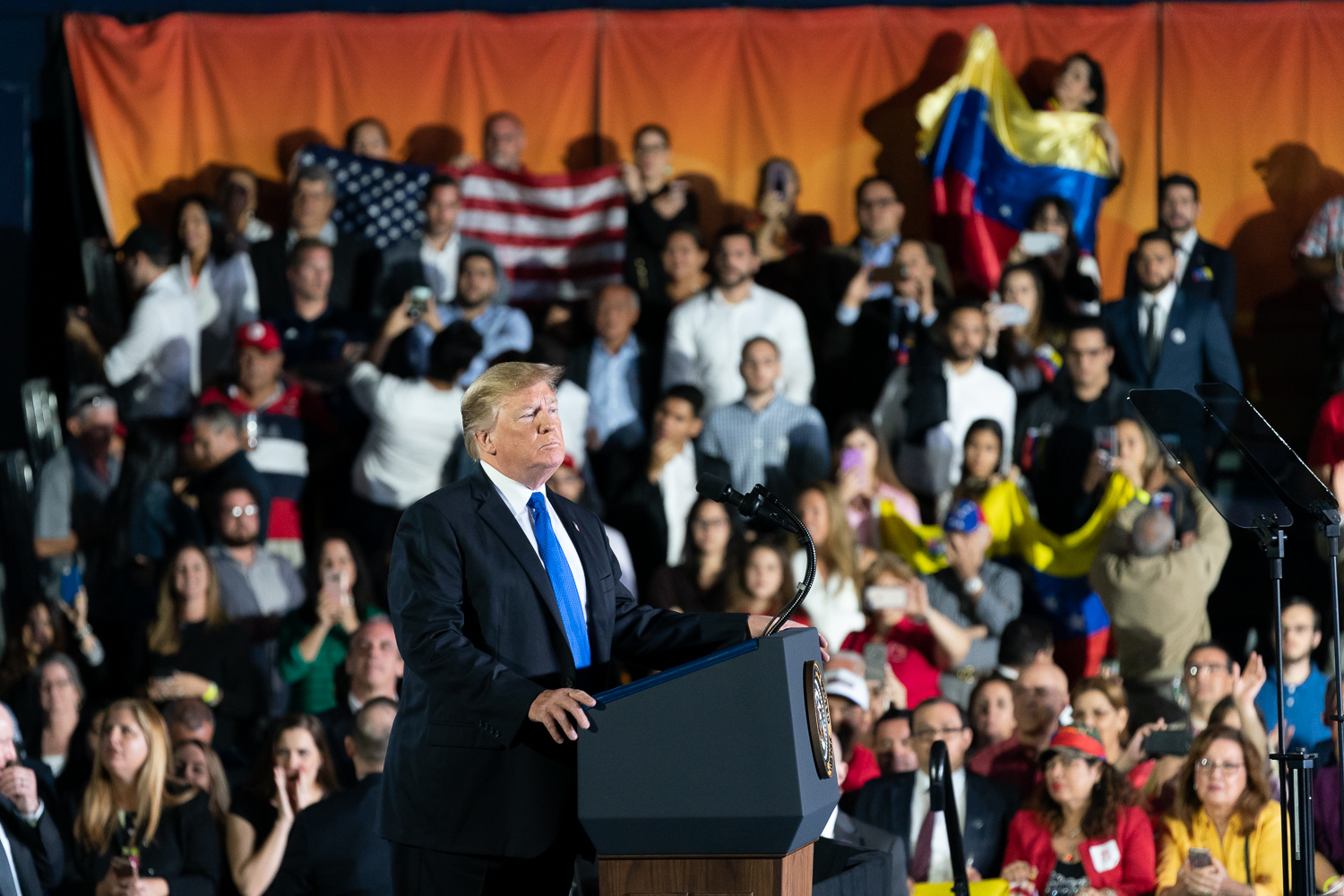 President Trump Delivers Remarks to the Venezuelan American Community President Donald J. Trump delivers remarks to the Venezuelan American community at the Florida International University Ocean Bank Convocation Center Monday, Feb. 18, 2019 in Miami, Fla. (Official White House Photo by Andrea Hanks)